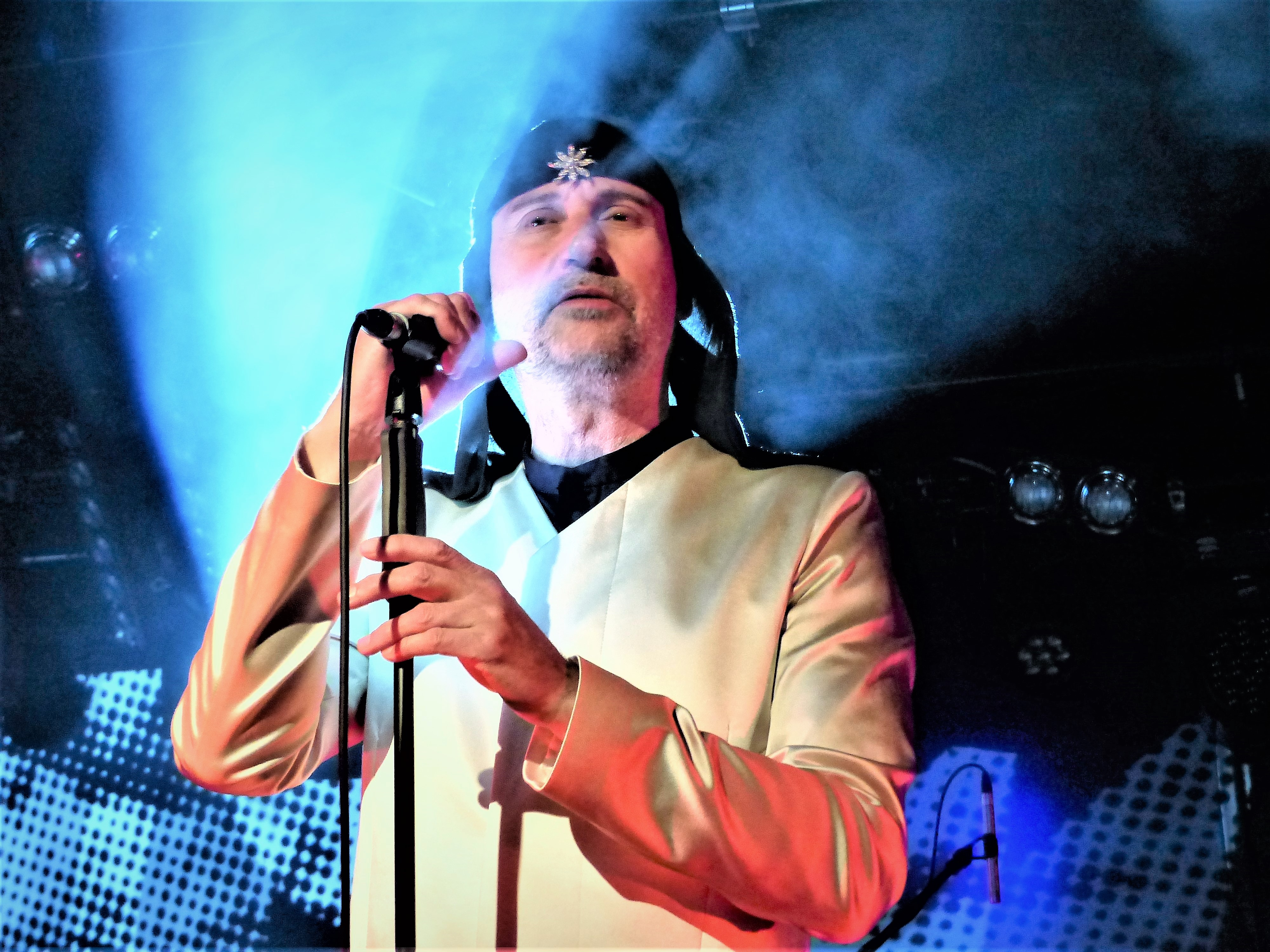 Milan Fras. Laibach performing at A38, Budapest, Central Europe on the 22nd of February, 2019.